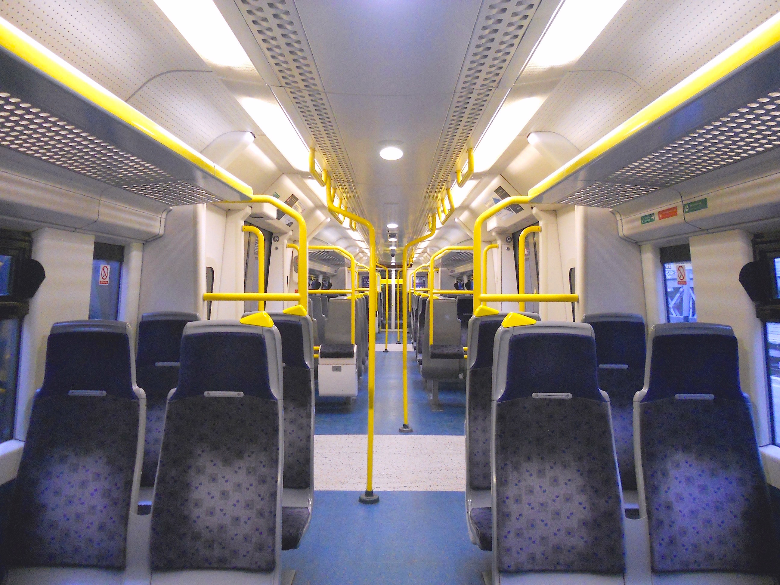 The interior of a Southeastern Trains Class 376